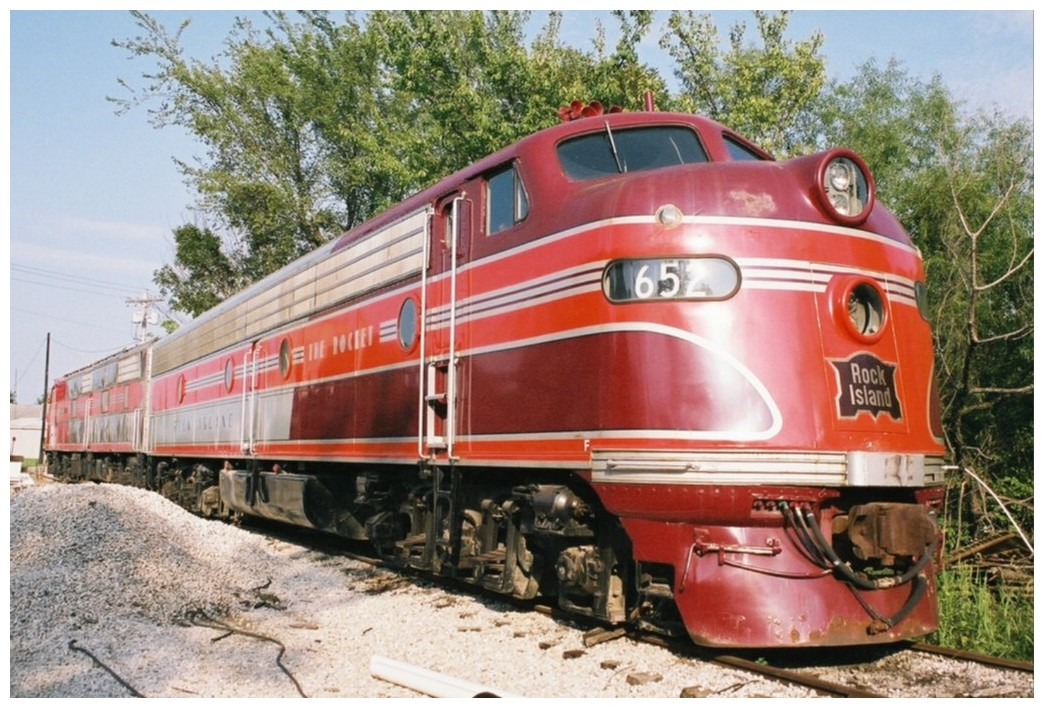 Chicago, Rock Island and Pacific Railroad Diesel locomotive #652 EMD E8A